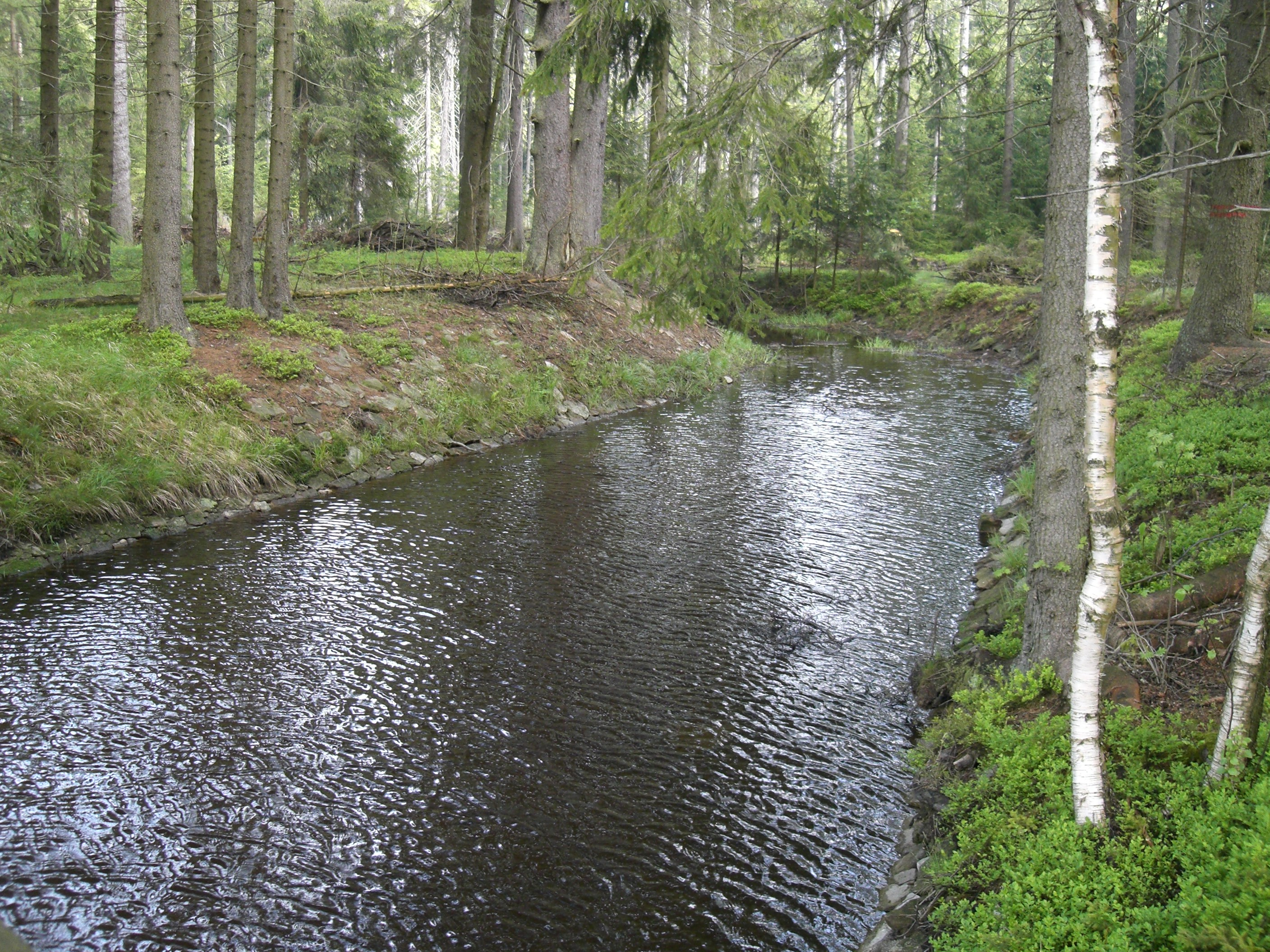 Dlouhá stoka - water canal in Slavkovský les, Czech Republic. 50°1'40.04"N,12°40'33.52"E.Beginning of Dlouhá stoka.